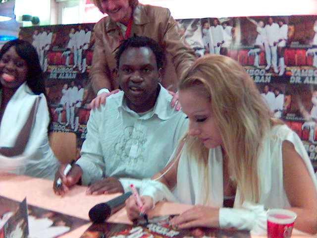 Dr. Alban and Yamboo promoting their "new" hit Sing Hallelujah.